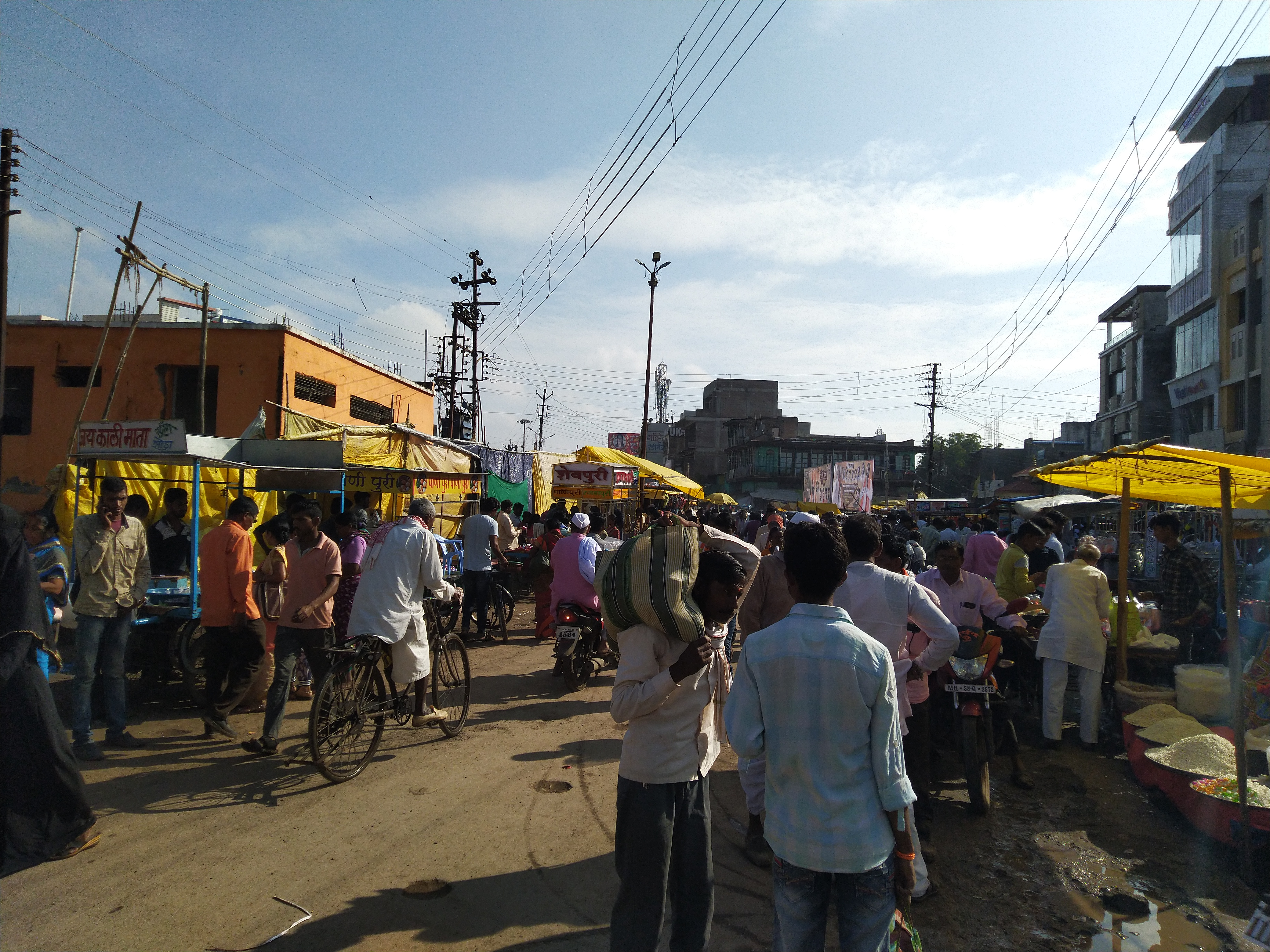 Busy market in Hingoli during Diwali 2019